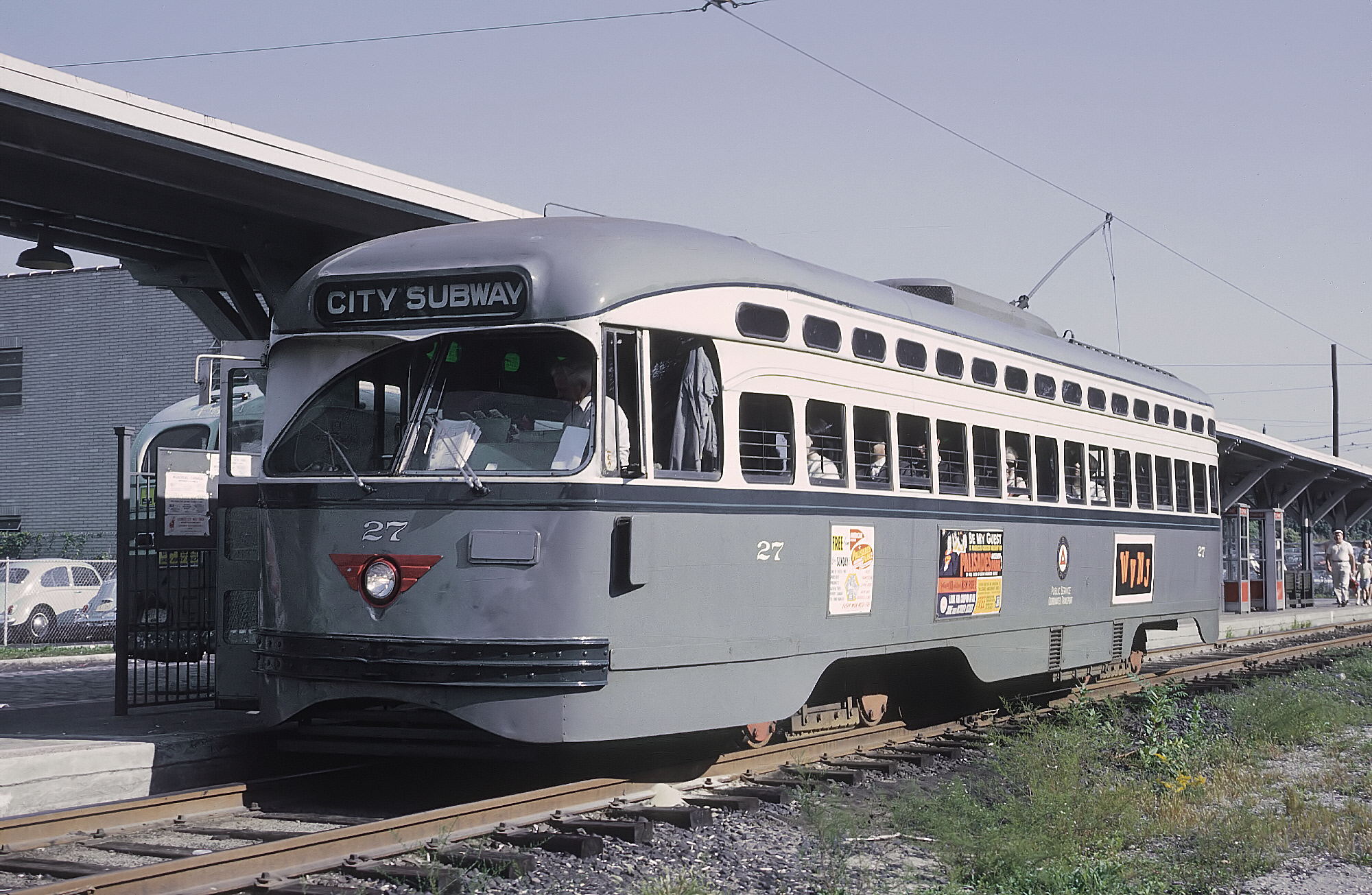 A Roger Puta photograph